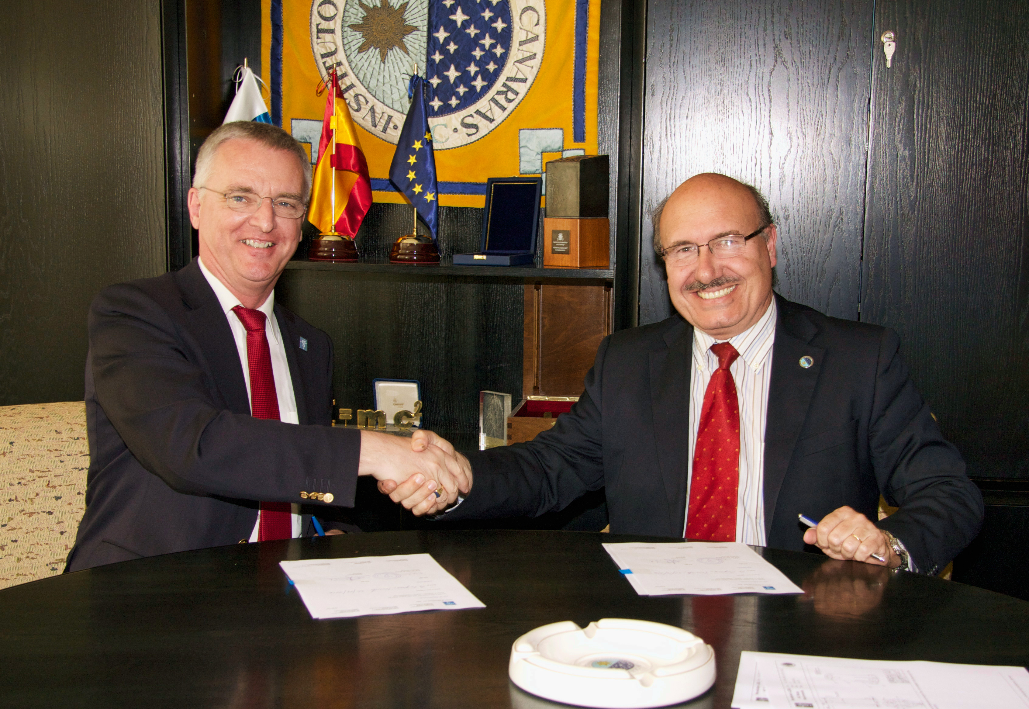 Tim de Zeeuw (left), ESO Director General, and Rafael Rebolo (right), IAC Director, sign an agreement between both institutions to perform experiments on adaptive optics at the Teide Observatory (Tenerife).